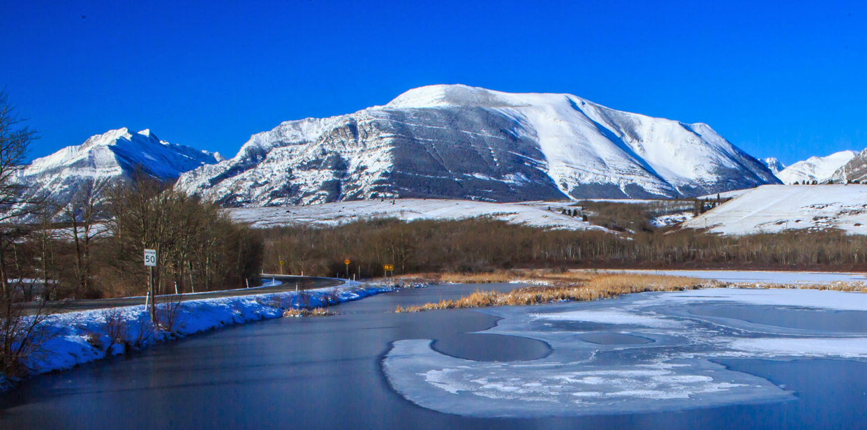 Waterton Lakes area with Mount Crandell centered